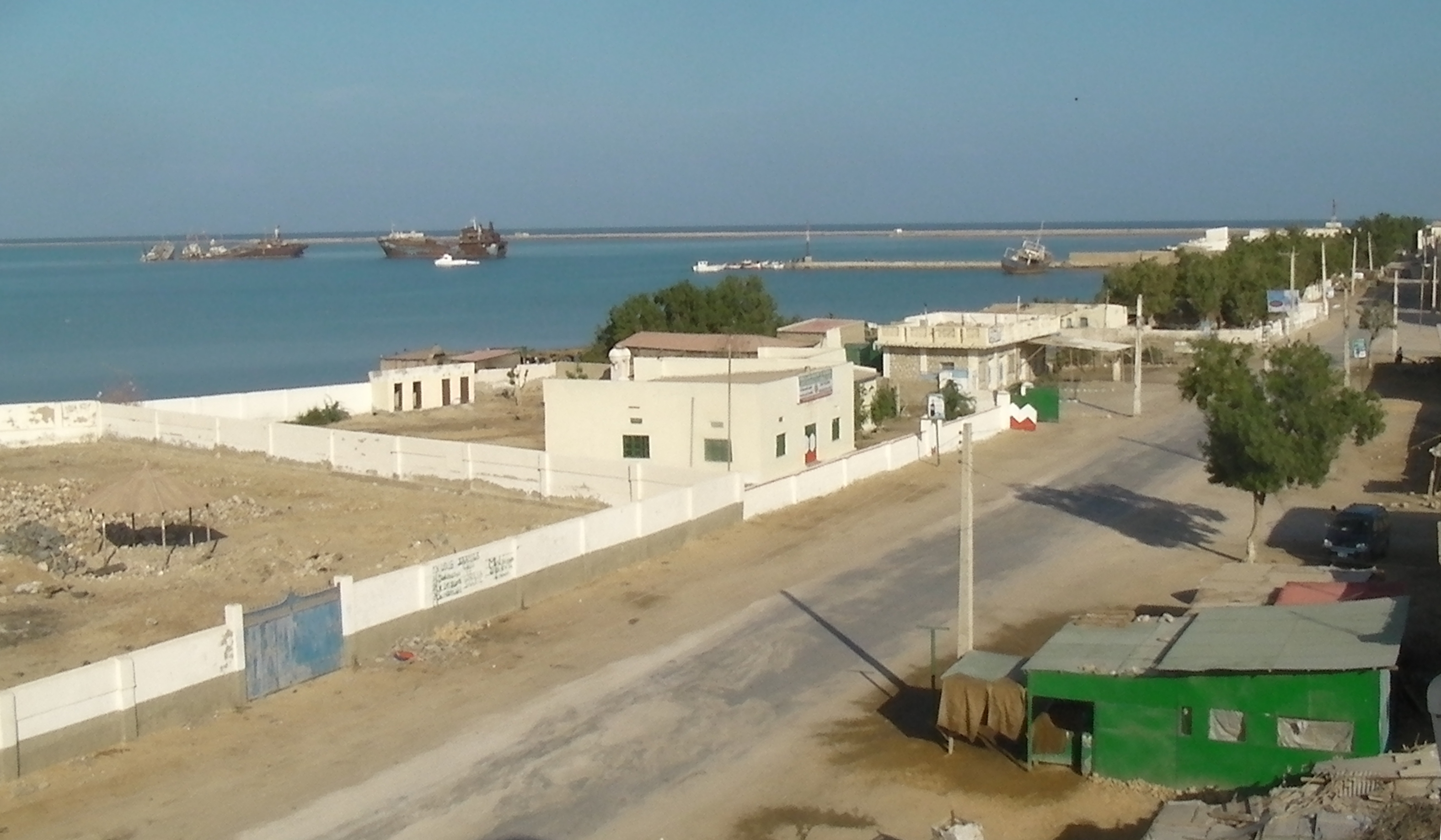 View from the top floor of the Esco Hotel in Berbera, Somaliland